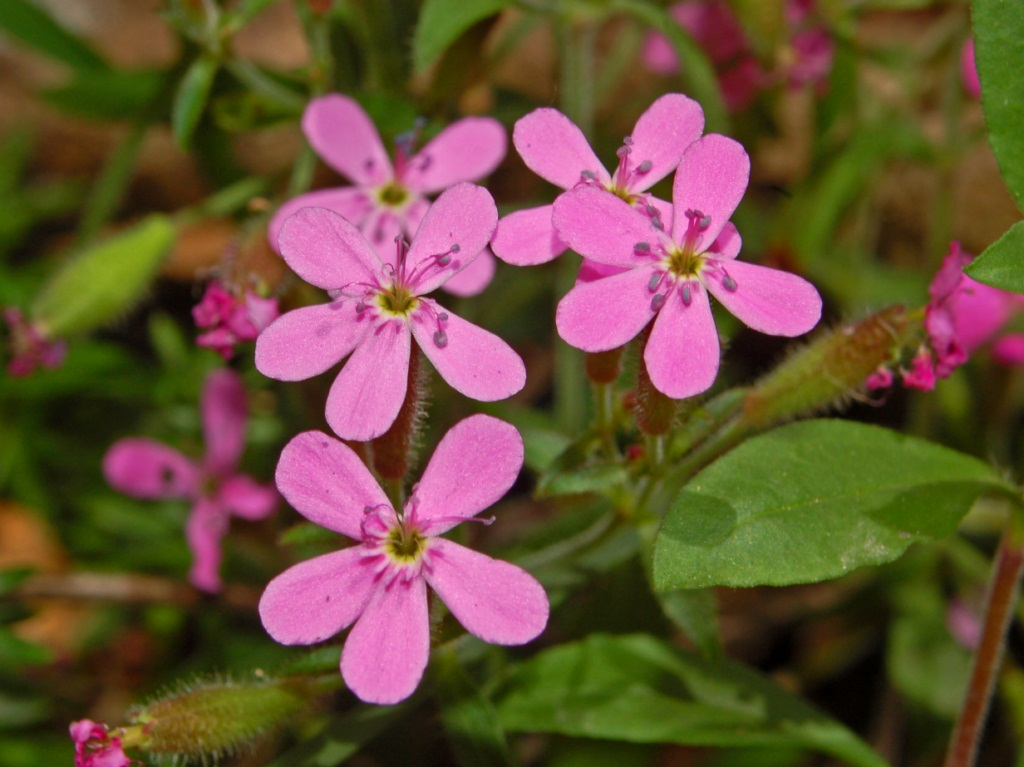 Saponaria ocymoides - Benedicta, Genova, Italy